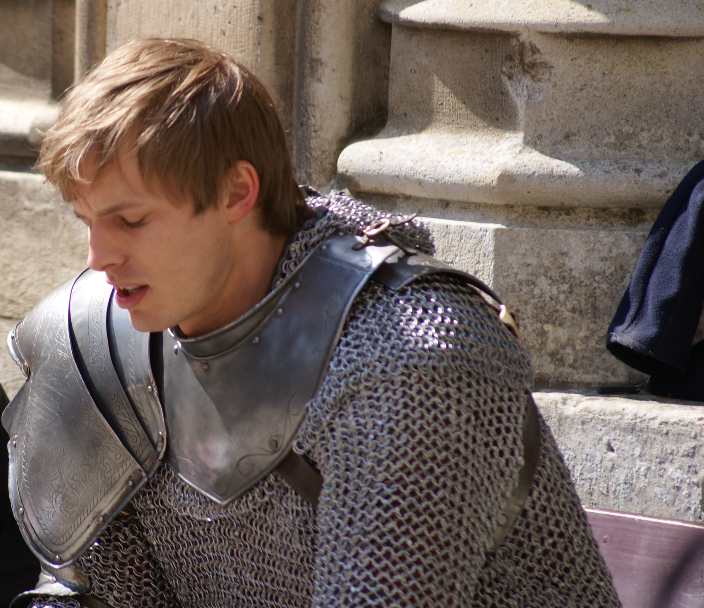 Bradley James filming Merlin in April 2010